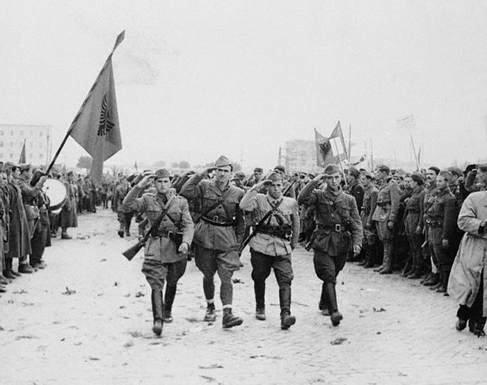 Albanian partisans marching in Tirana in 1944